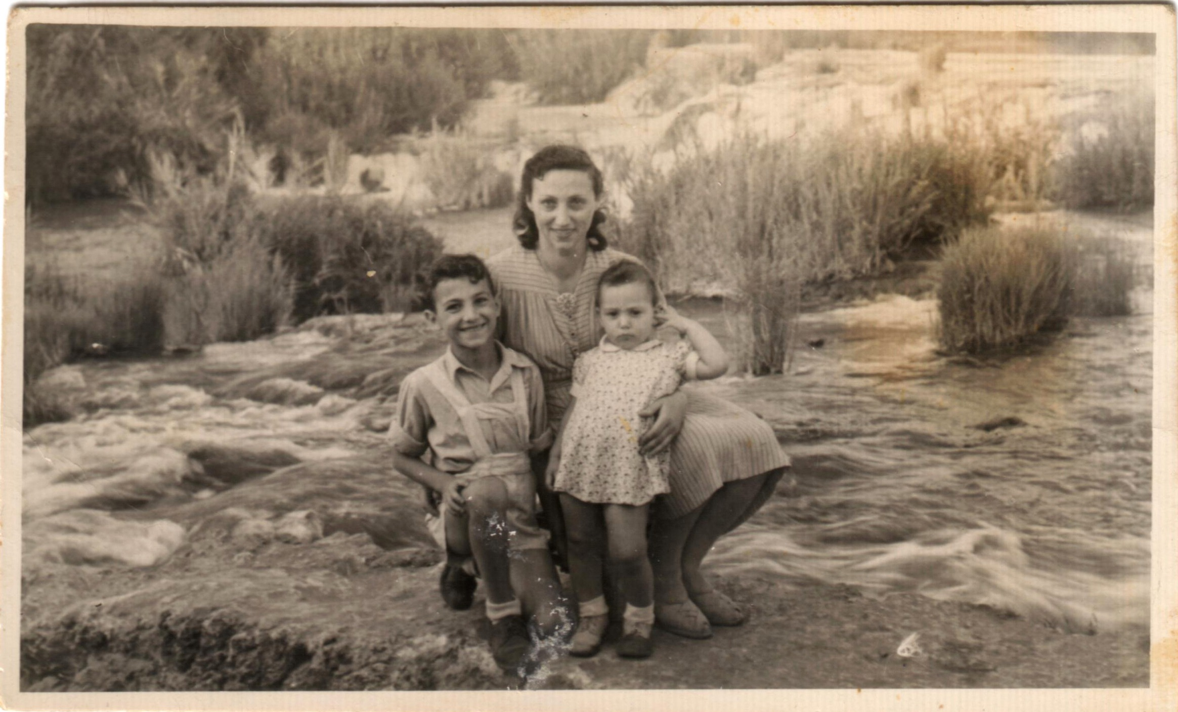 Geography of Israel